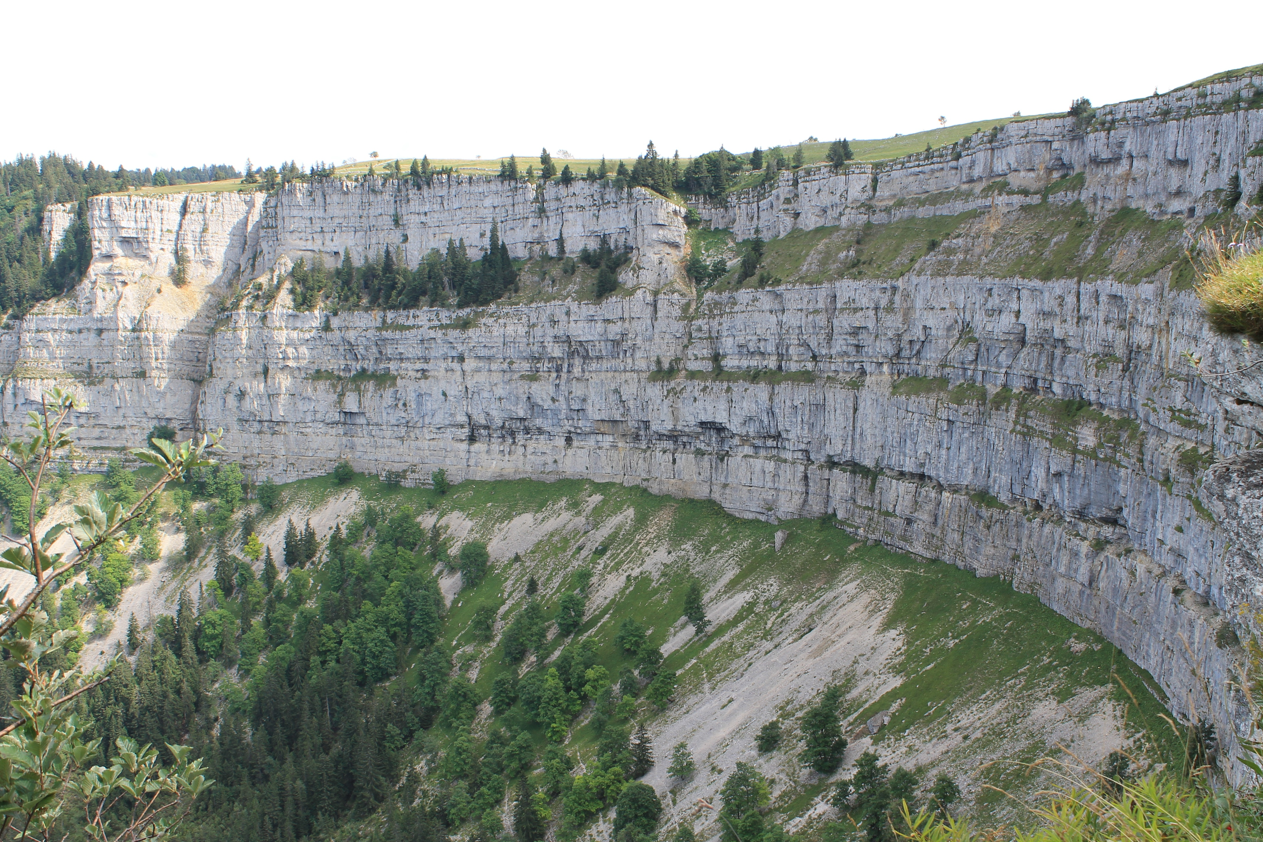 Creux du Van - canton of Neuchâtel, Switzerland